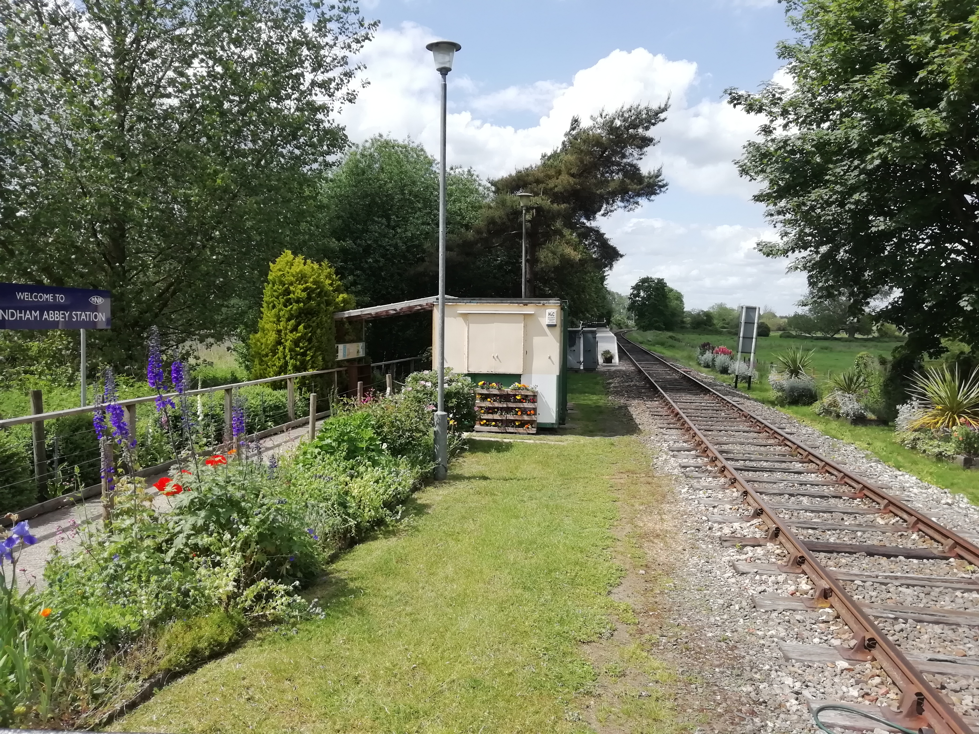 Depicted place: Wymondham Abbey railway station